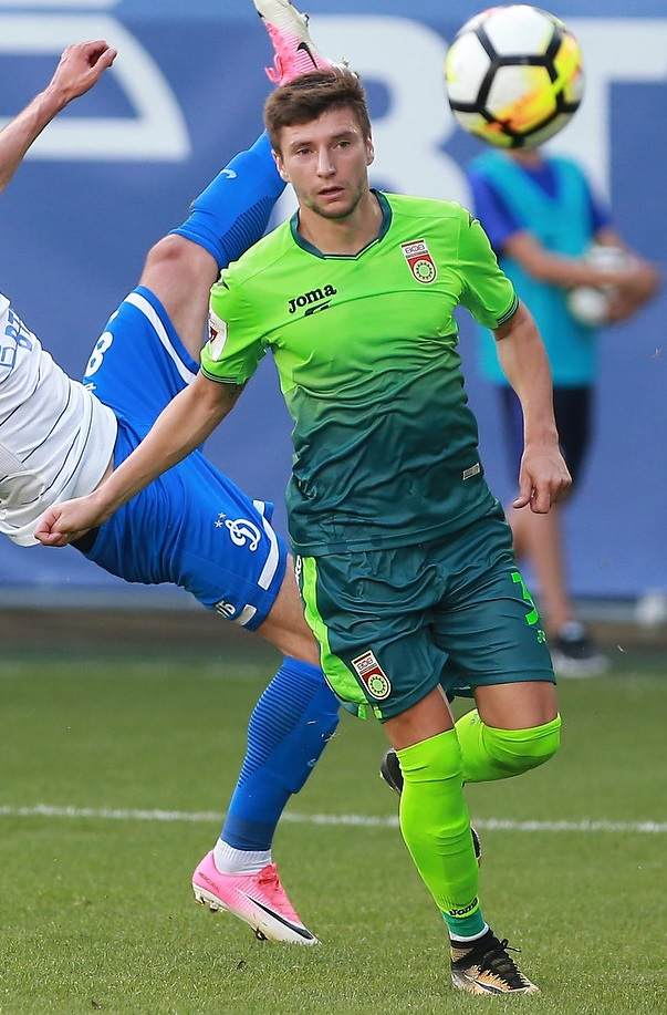 Dmitry Stotsky with FC Ufa in a game against FC Dynamo Moscow.